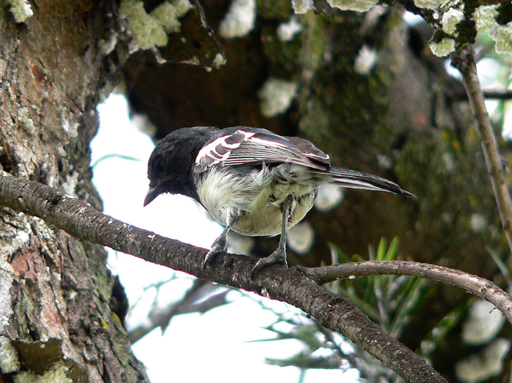 White-bellied Tit Parus albiventris photographed in Nanyuki, Kenya